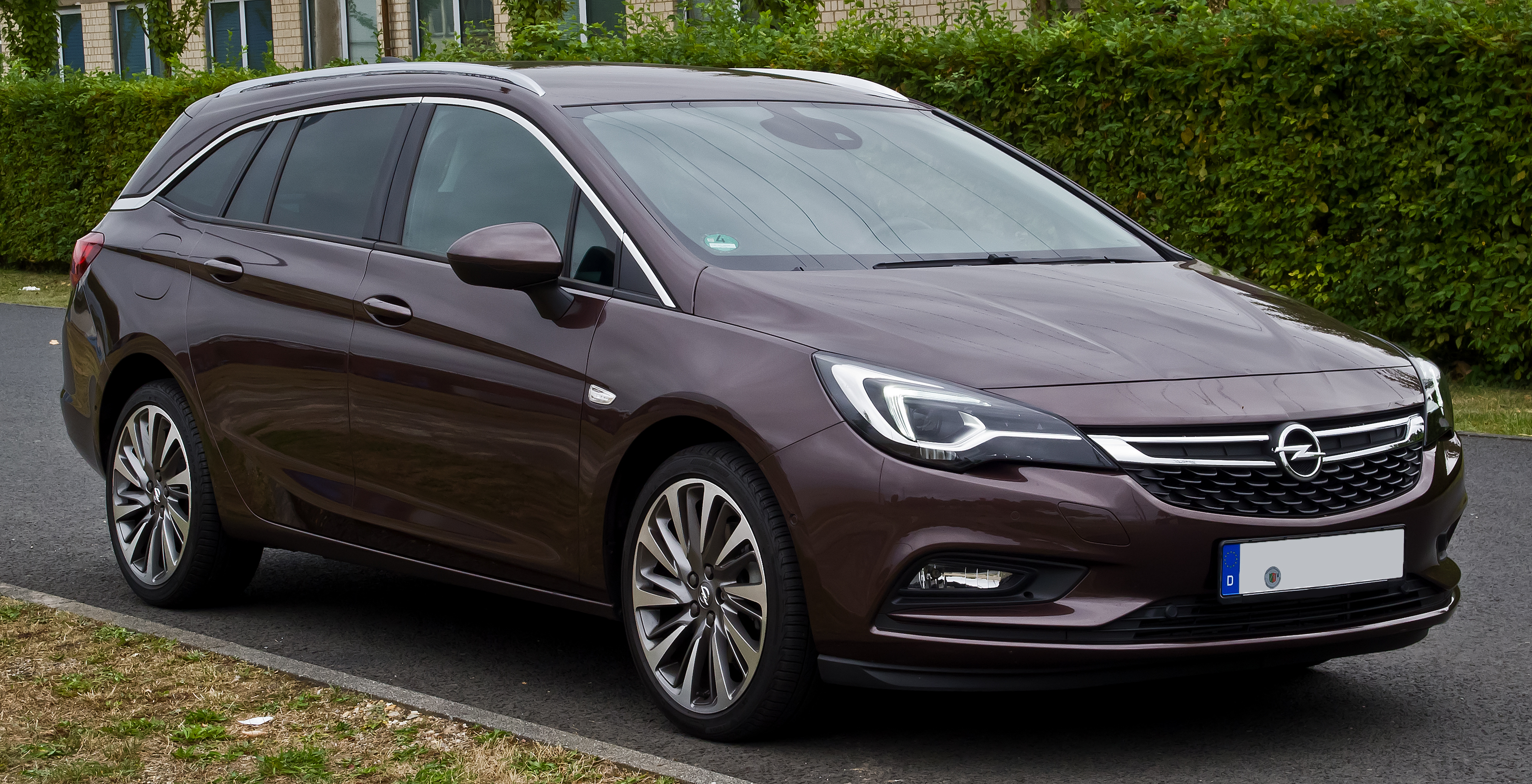 Opel Astra Sports Tourer 1.6 BiTurbo CDTI ecoFLEX Innovation (K)